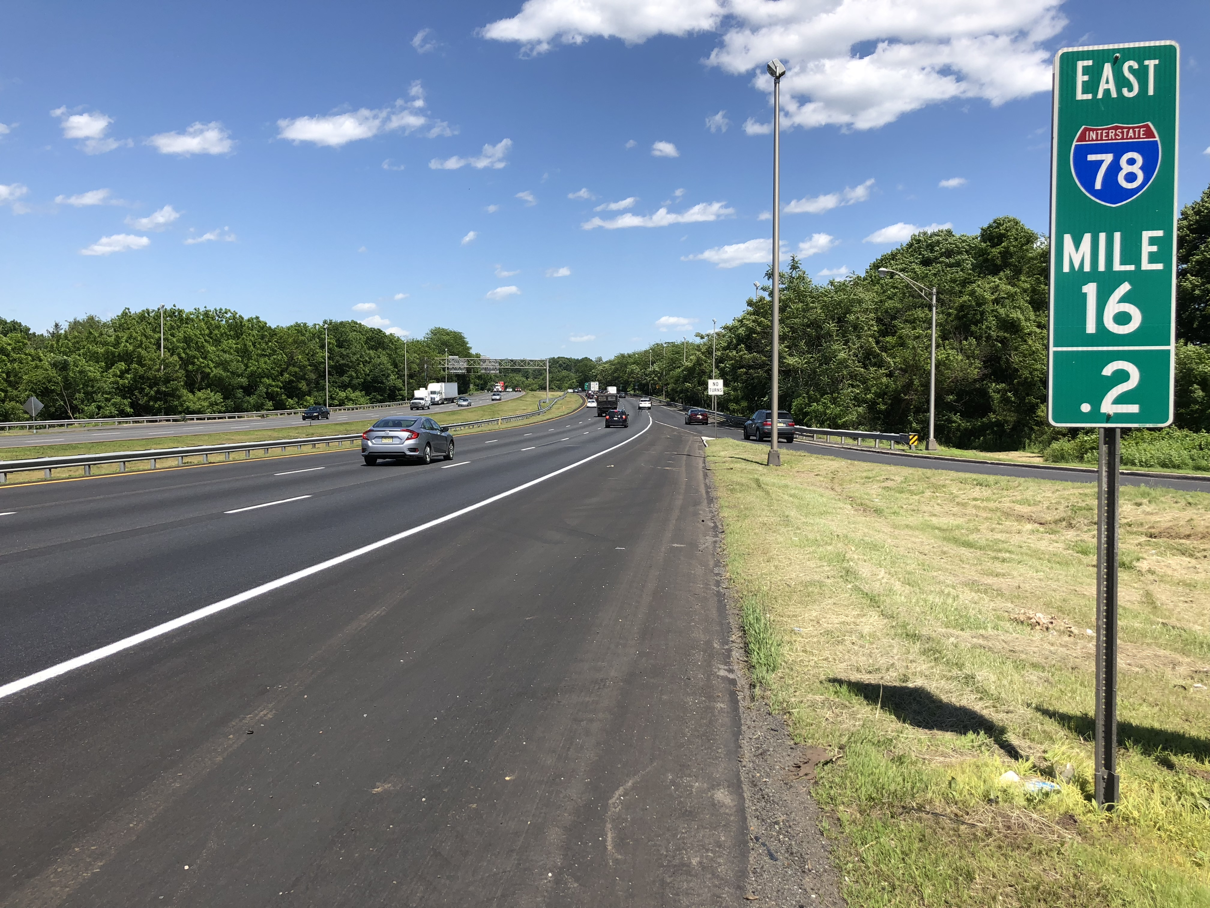 View east along Interstate 78 and U.S. Route 22 (Phillipsburg-Newark Expressway) just east of Exit 15 in Franklin Township, Hunterdon County, New Jersey